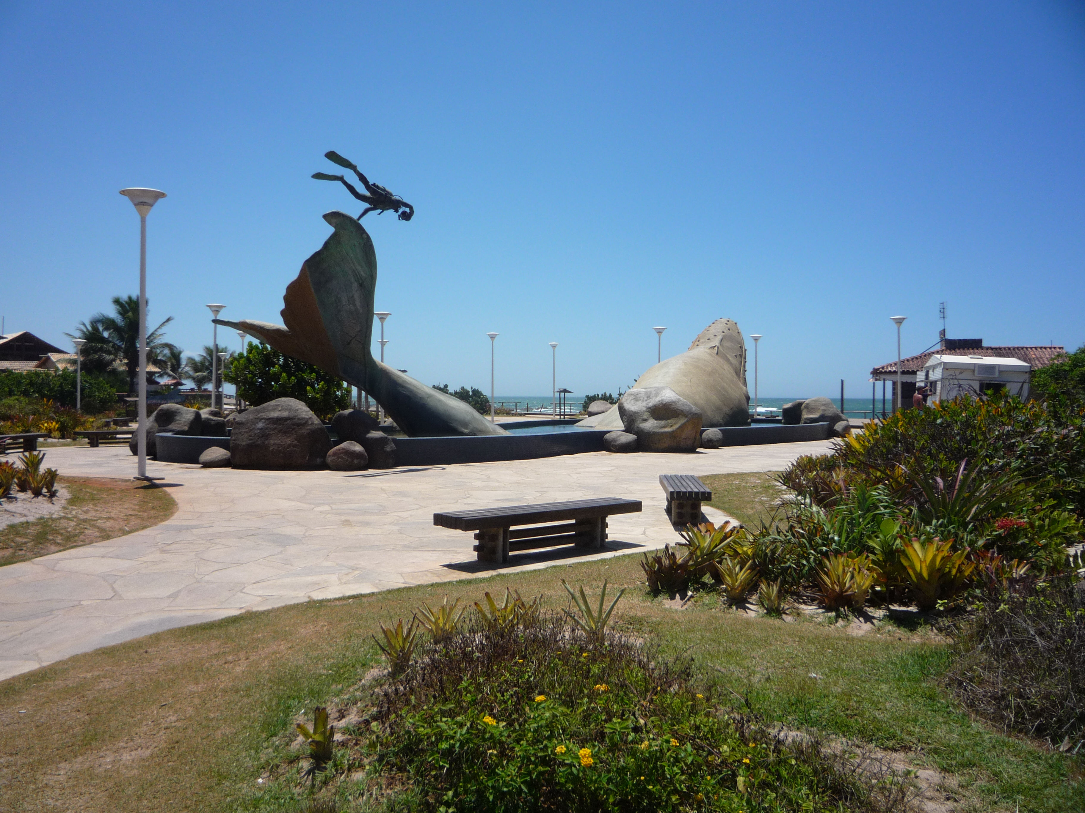 Praça da Baleia (Whale Square) in Rio das Ostras, Brazil